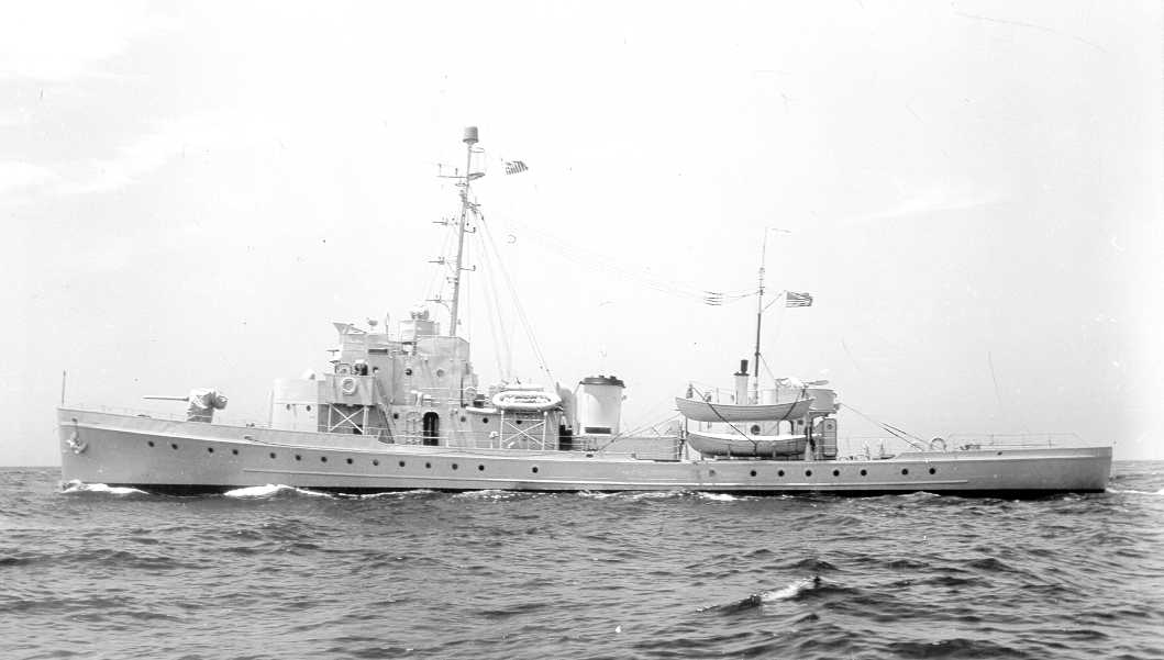 USCGC Perseus (WPC-114), 3 July 1947.